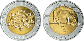 2 Lati Latvia 1999 Obverse: The large coat of arms of the Republic of Latvia is placed in the central circle. The inscriptions LATVIJAS REPUBLIKA and 1999, each arranged in a semicircle and separated by two dots, are in the outer ring respectively above and beneath the central motif. Reverse: The upper part of the central circle features a cow, with the figure 2 directly beneath. The inscription LATI is arranged in the bottom part of the outer ring. The background motif (clouds and grass) links the central circle with the outer ring. Edge: Reeded; two inscriptions LATVIJAS BANKA (Bank of Latvia), separated by dots.